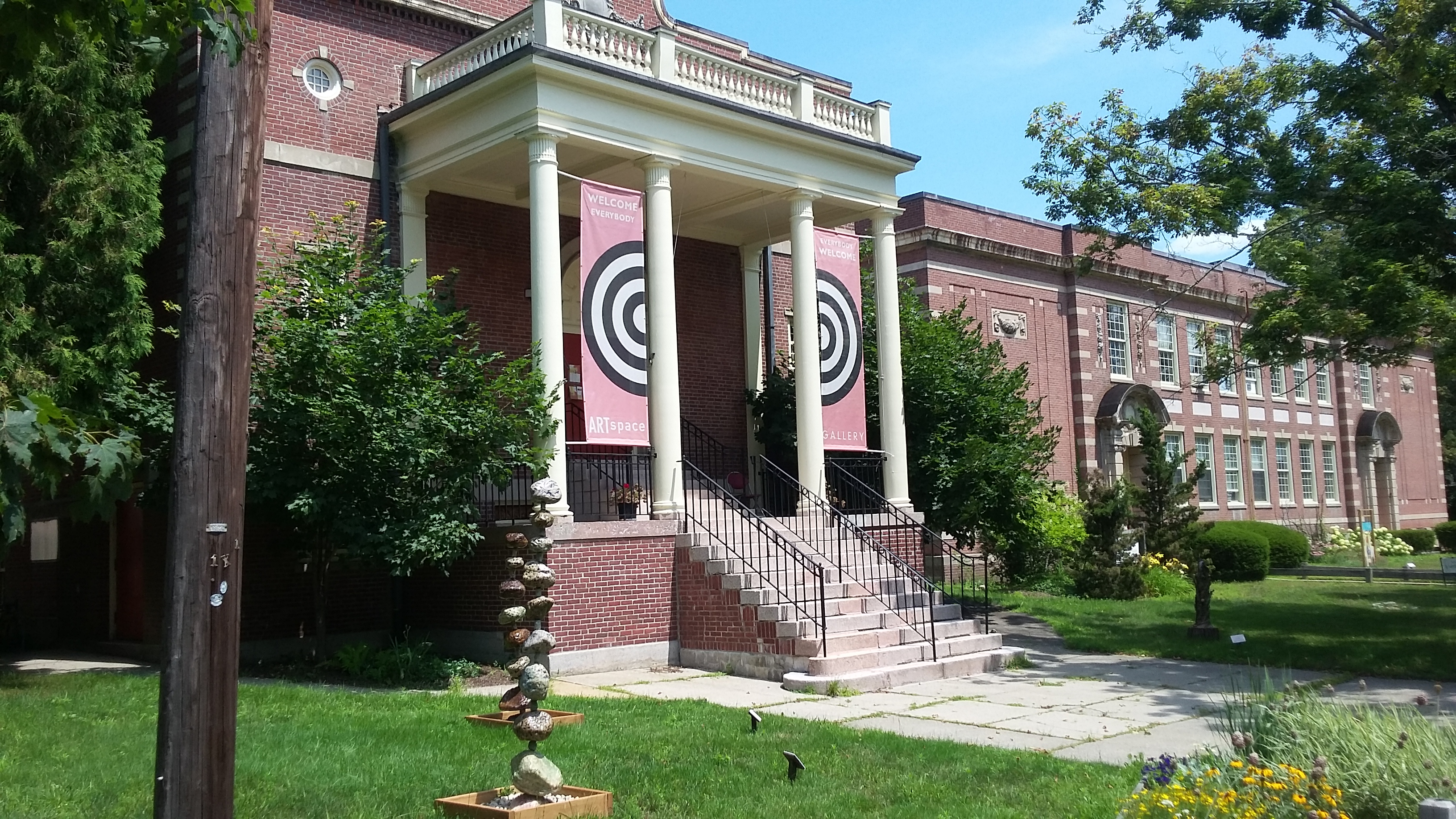 Artspace Maynard on Summer Street Maynard MA